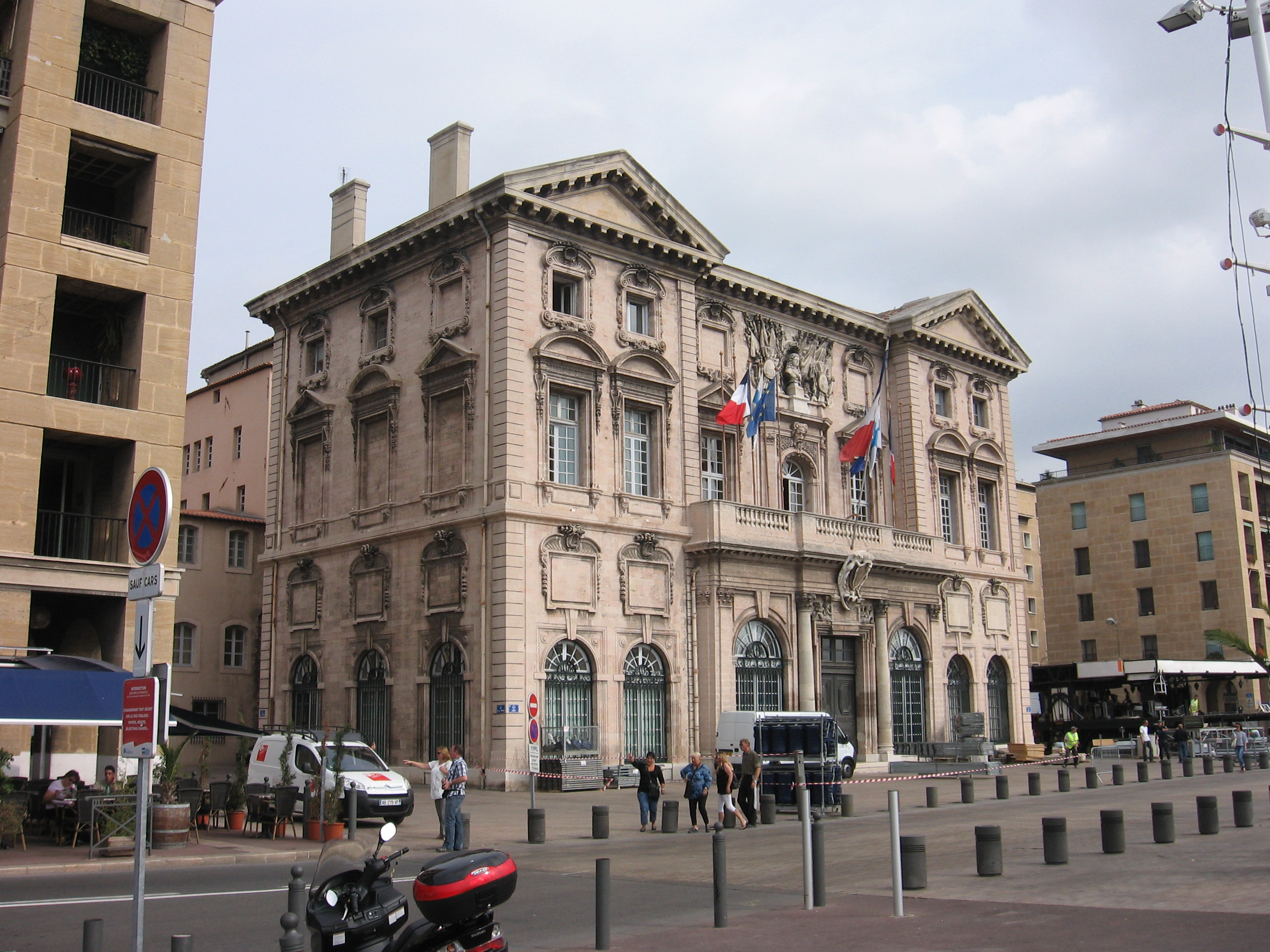 Hôtel de Ville